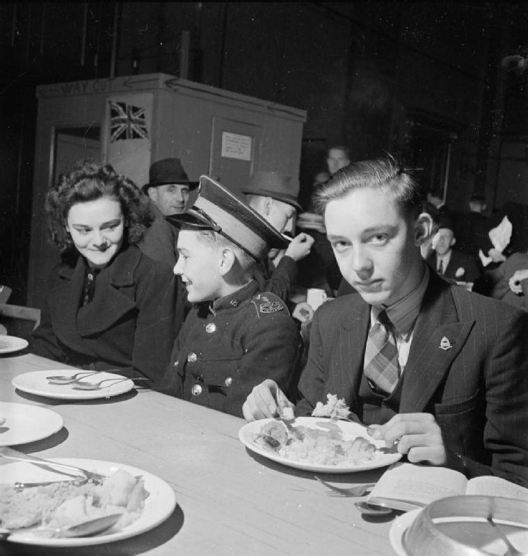 Londoners' Meals Service- Canteen at Fishmongers' Hall, London Bridge, London, 1942 18 year old typist Miss E D Barry (left), her 15 year old brother (centre), and D E H Murrells (right) enjoy a meal at the Londoner' Meals Service canteen at Fishmongers' Hall. Master Barry is a messenger boy for Cable and Wireless. Murrells did have a career in accountancy and audit, but is now in the Royal Air Force Volunteer Reserve and hopes to become a pilot.